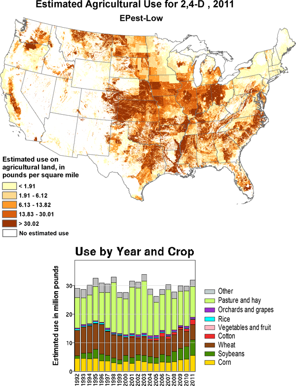 2,4-D map of use, USA, 2011 (estimated)